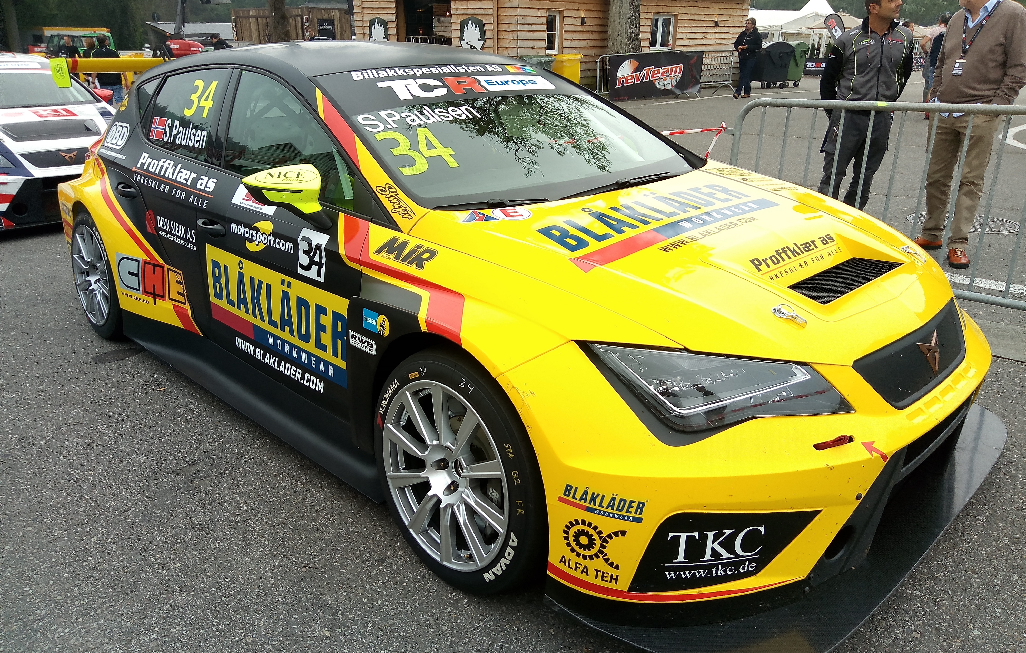 Stian Paulsen (Stian Paulsen Racing) at the 2018 TCR Europe Series round at Spa-Francorchamps.